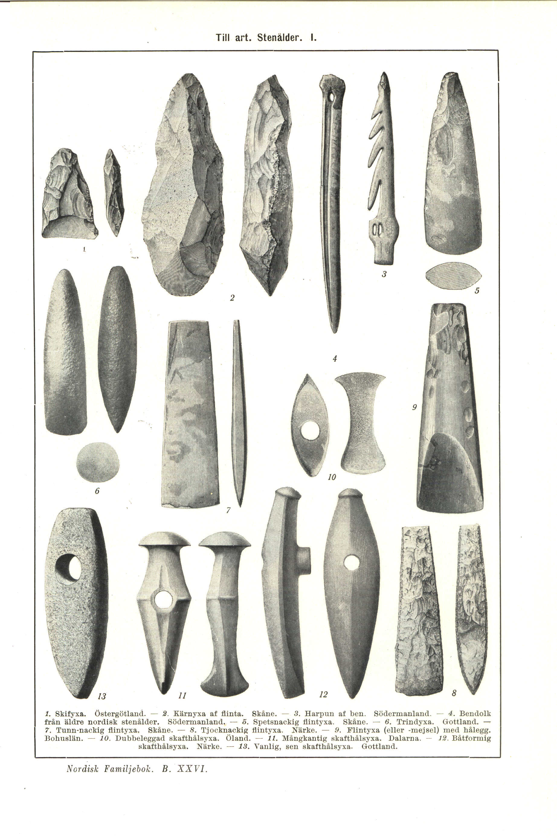 Follow wikilinks for croppings